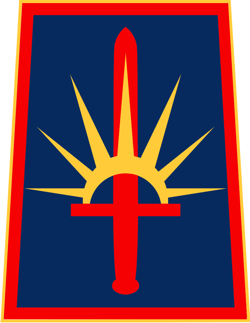 New York State Area Command Shoulder Sleeve insignia